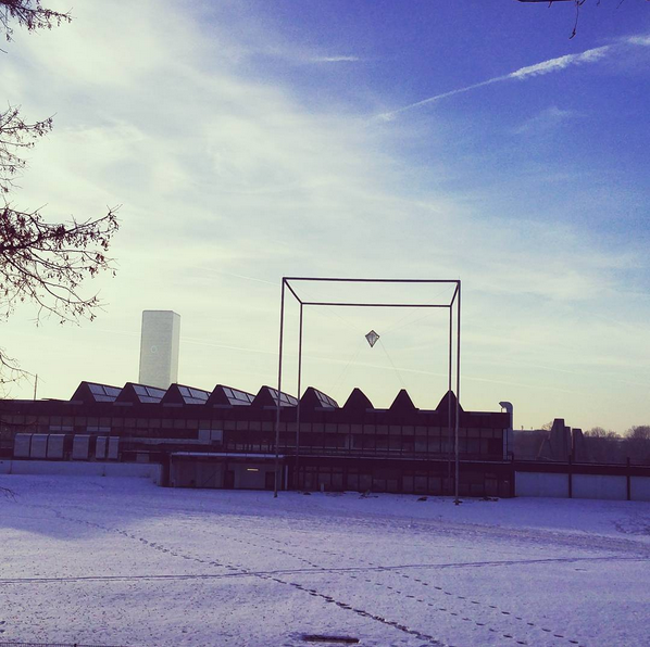 Zentrale Hochschulsportanlage München, im Hintergrund Uptown Munich